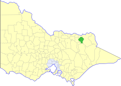 Location of the Shire of Yackandandah within Victoria.